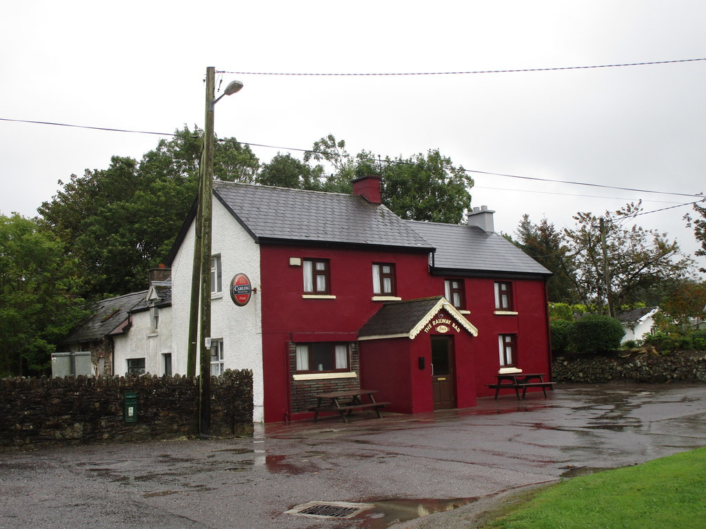 The Railway Bar